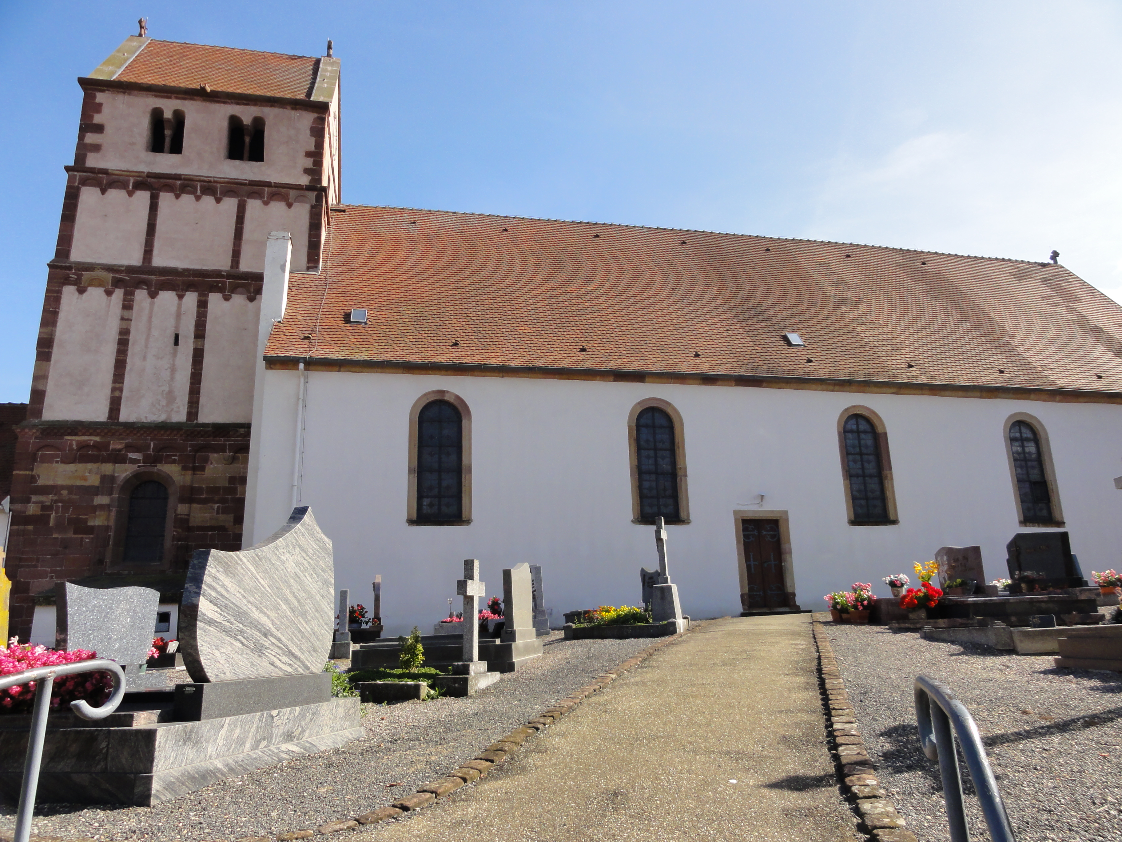 Alsace, Bas-Rhin, Willgottheim, Église Saint-Maurice (PA00085236, IA67001050).